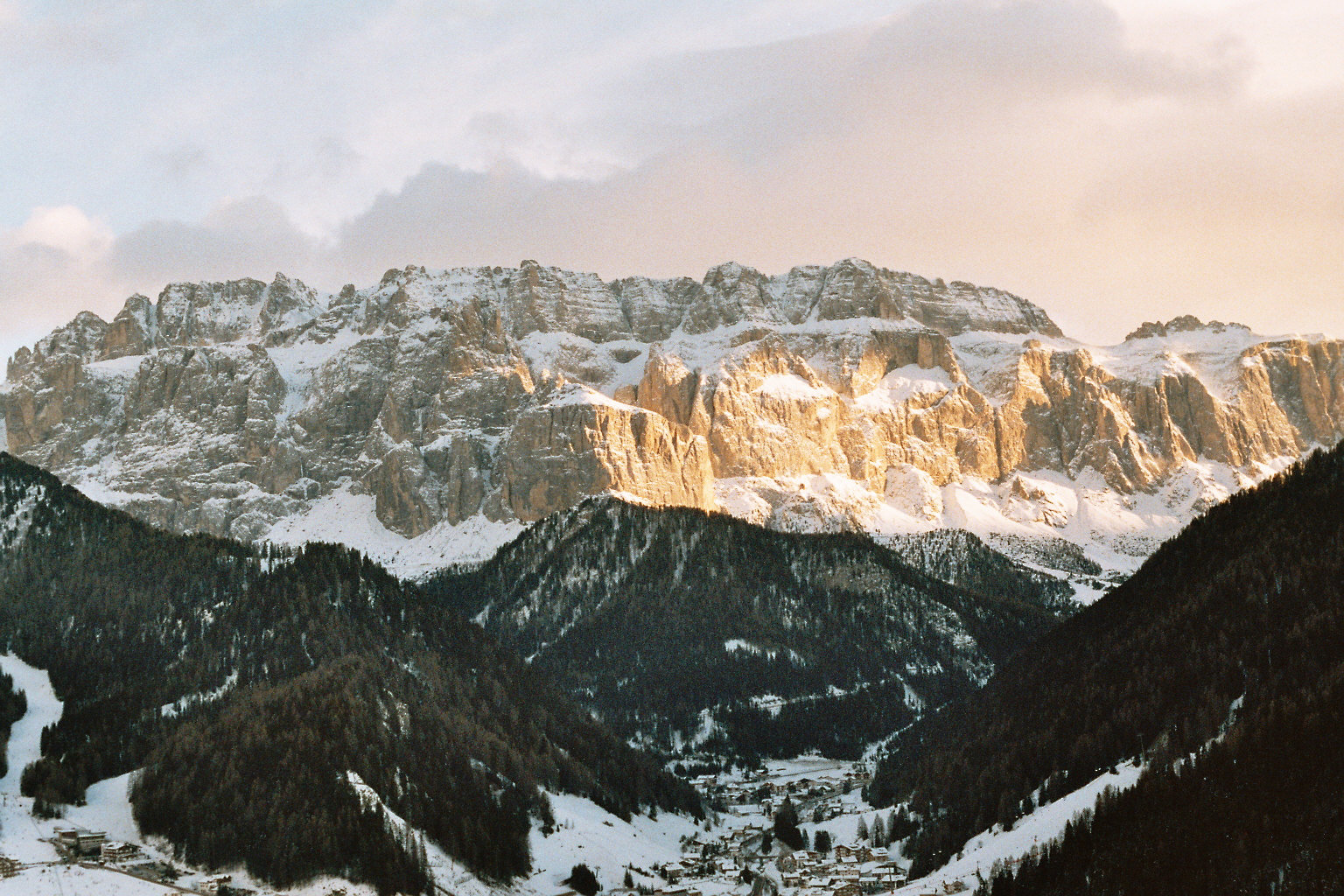 The sella mountain group in the Italian Dolomites seen from Selva, Val Gardena. Photographed by myself in early January 2005.